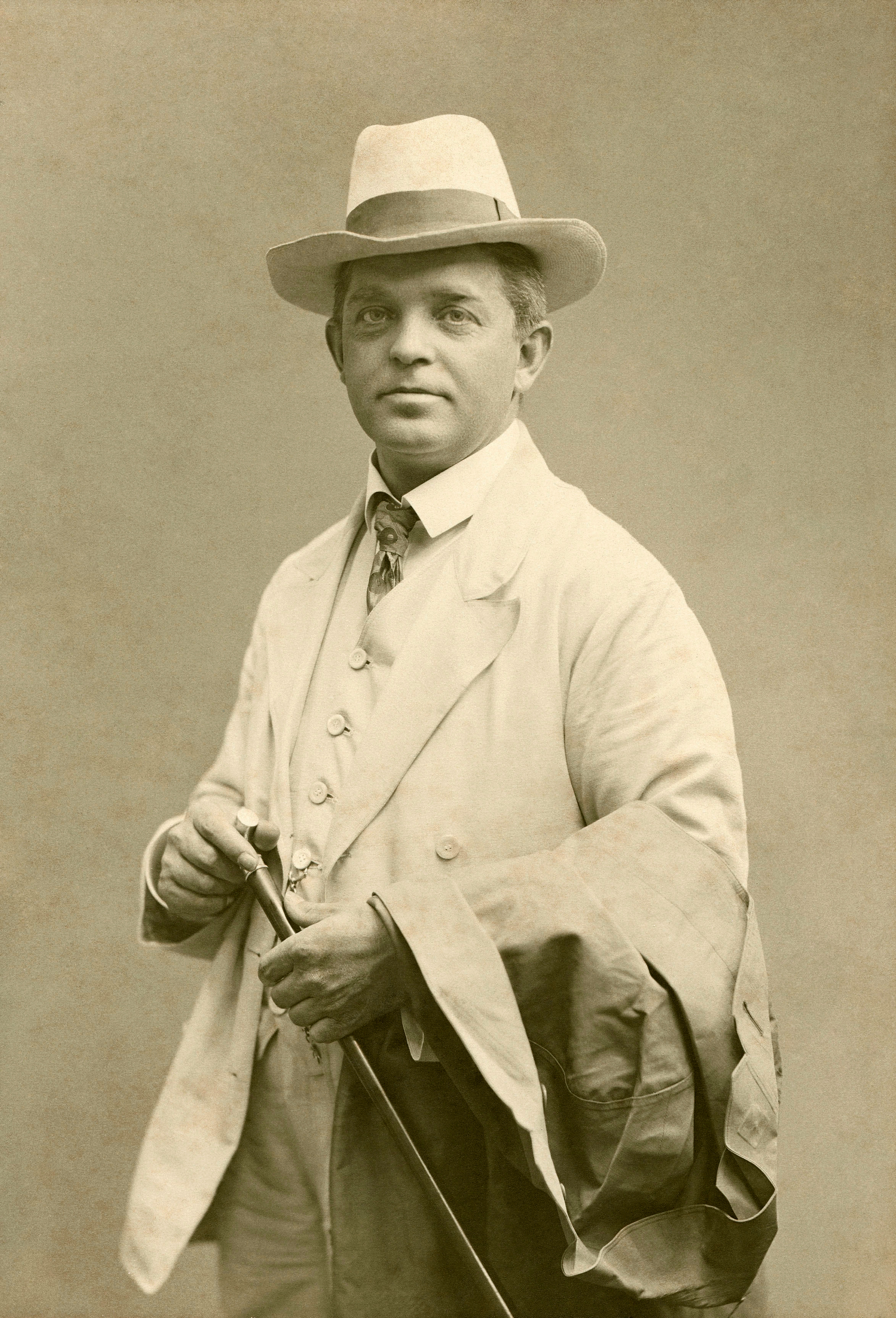 Portrait photo of Danish composer Carl Nielsen